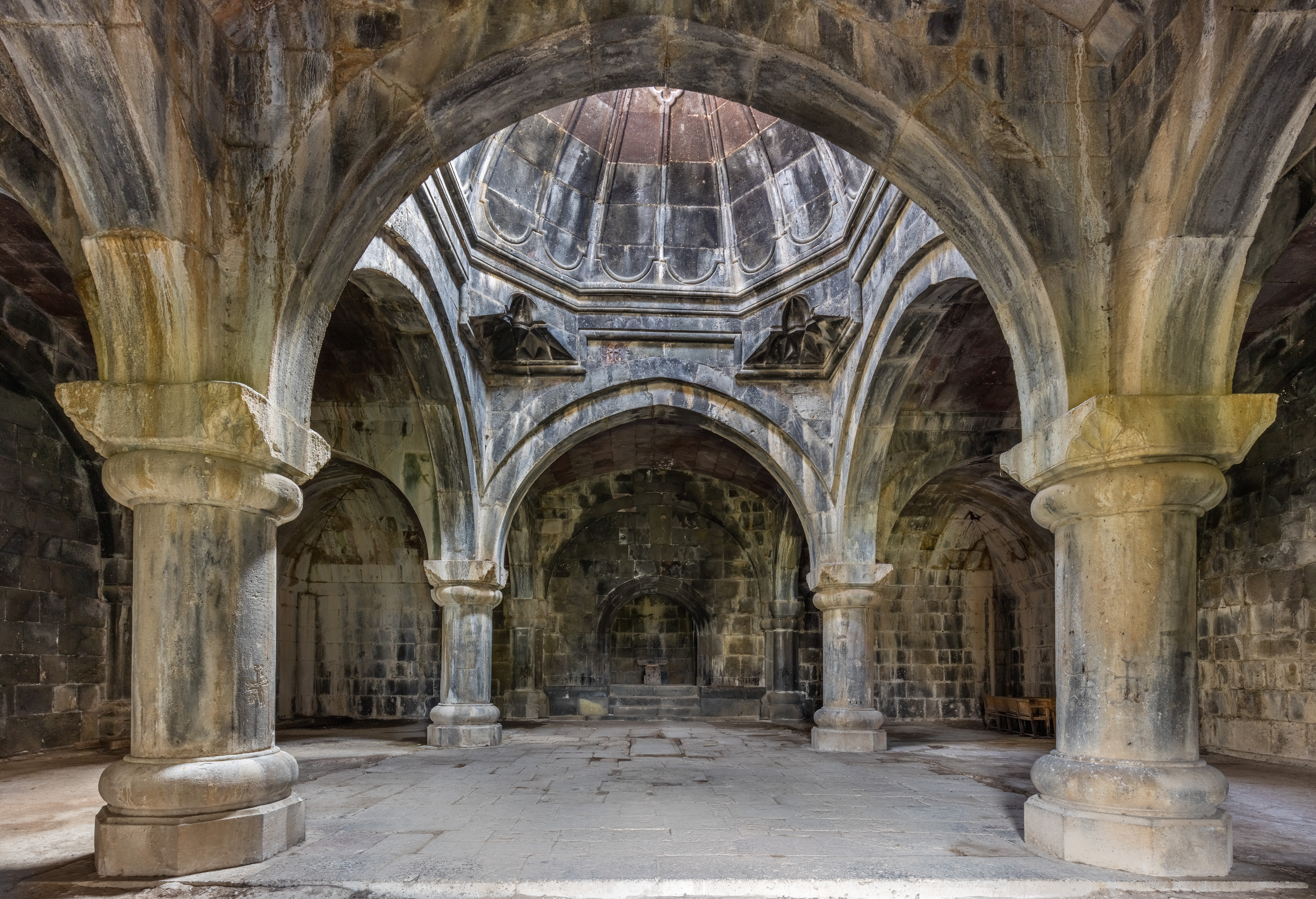 Haghpat Monastery, Armenia